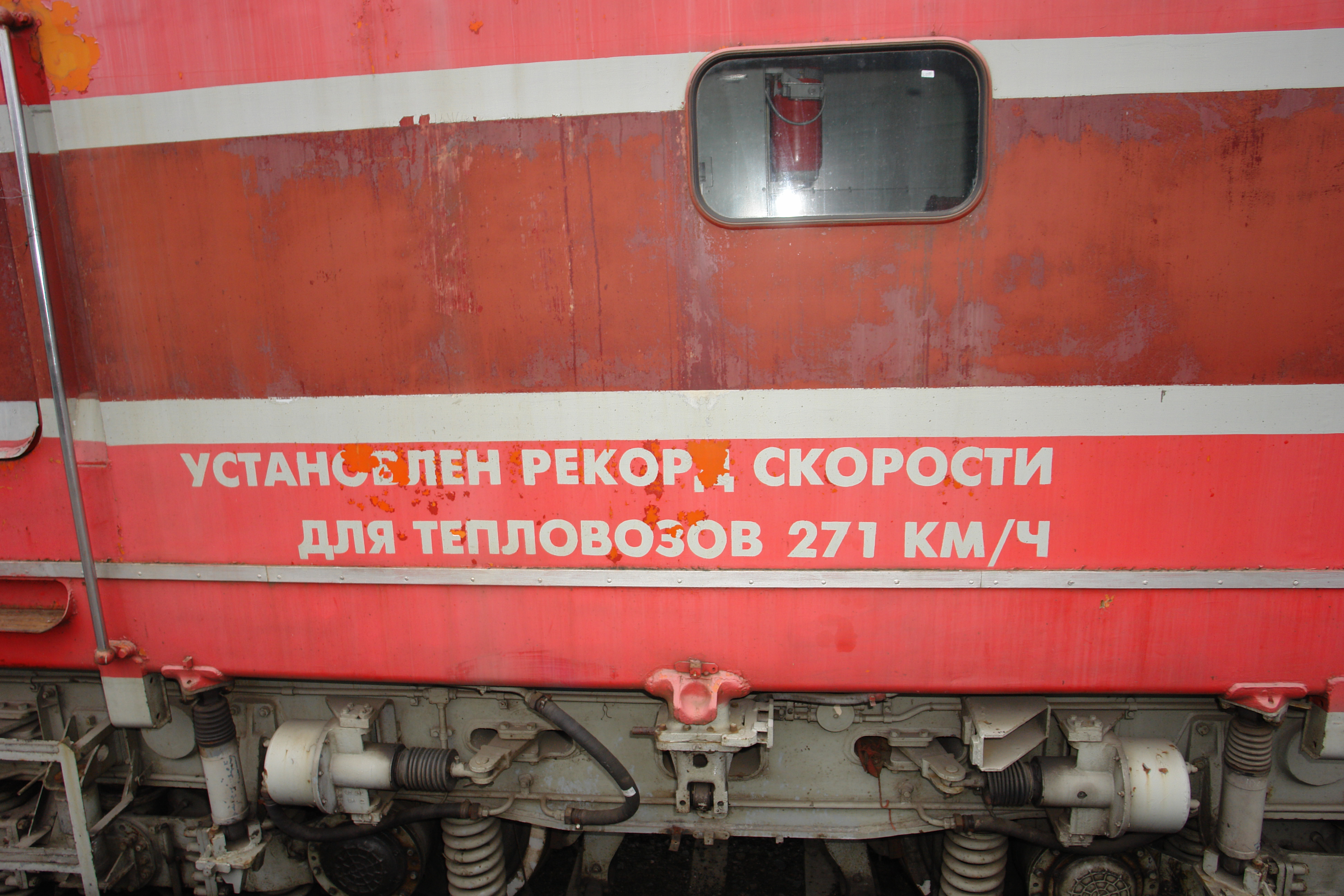 Locomotive TEP80 002 (no additional information avaible)